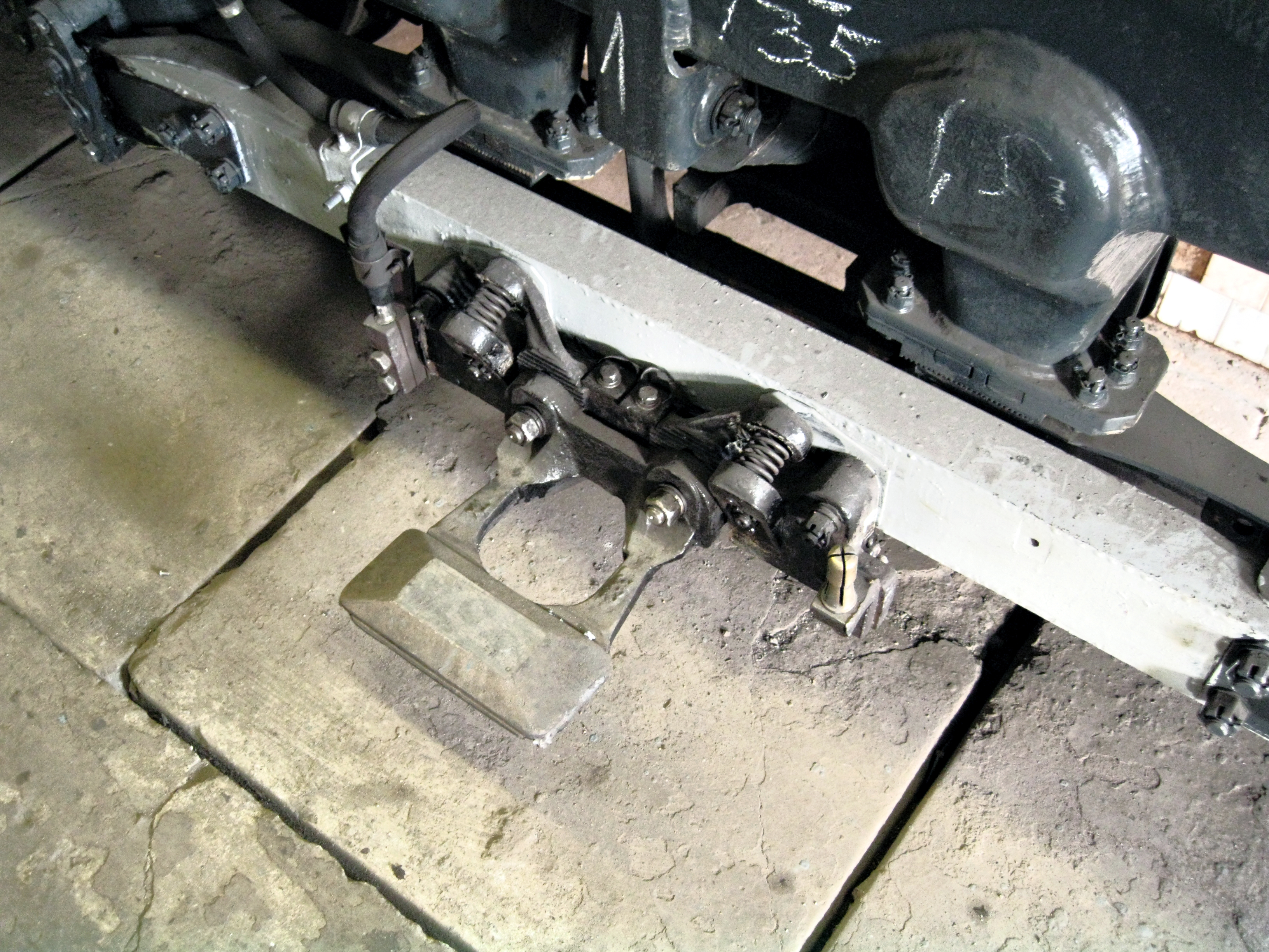 Third rail contact shoe of Saint-Petersburg Subway car.